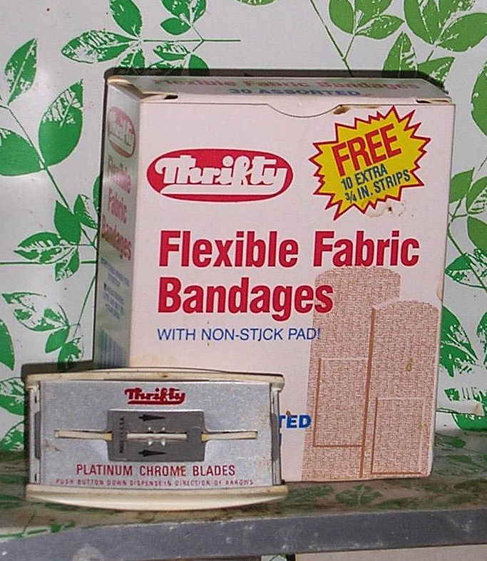 The former thrifty Drug Stores were large enough to have their own brand of products.